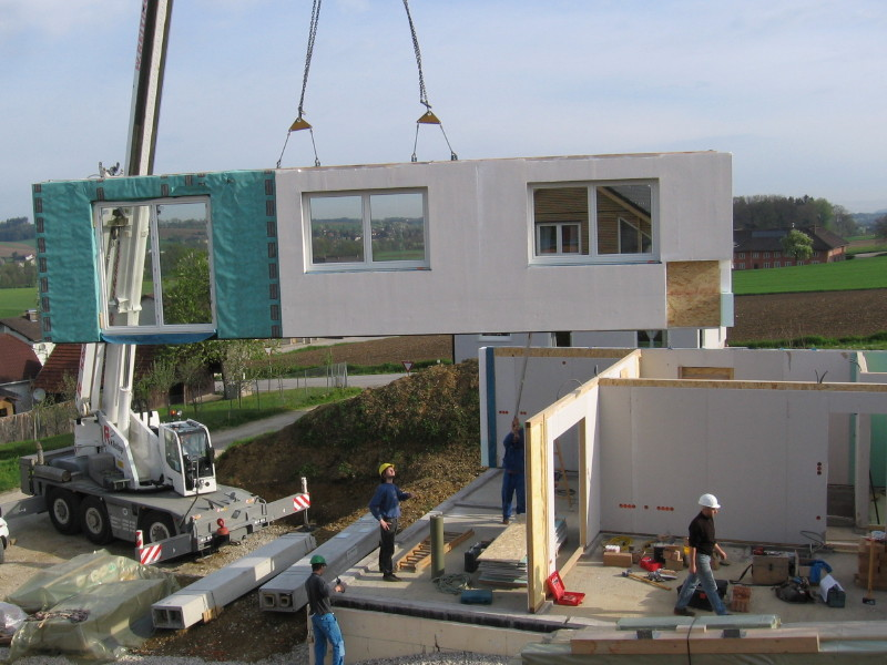 Construction works at a prefabricated house (light-frame construction)